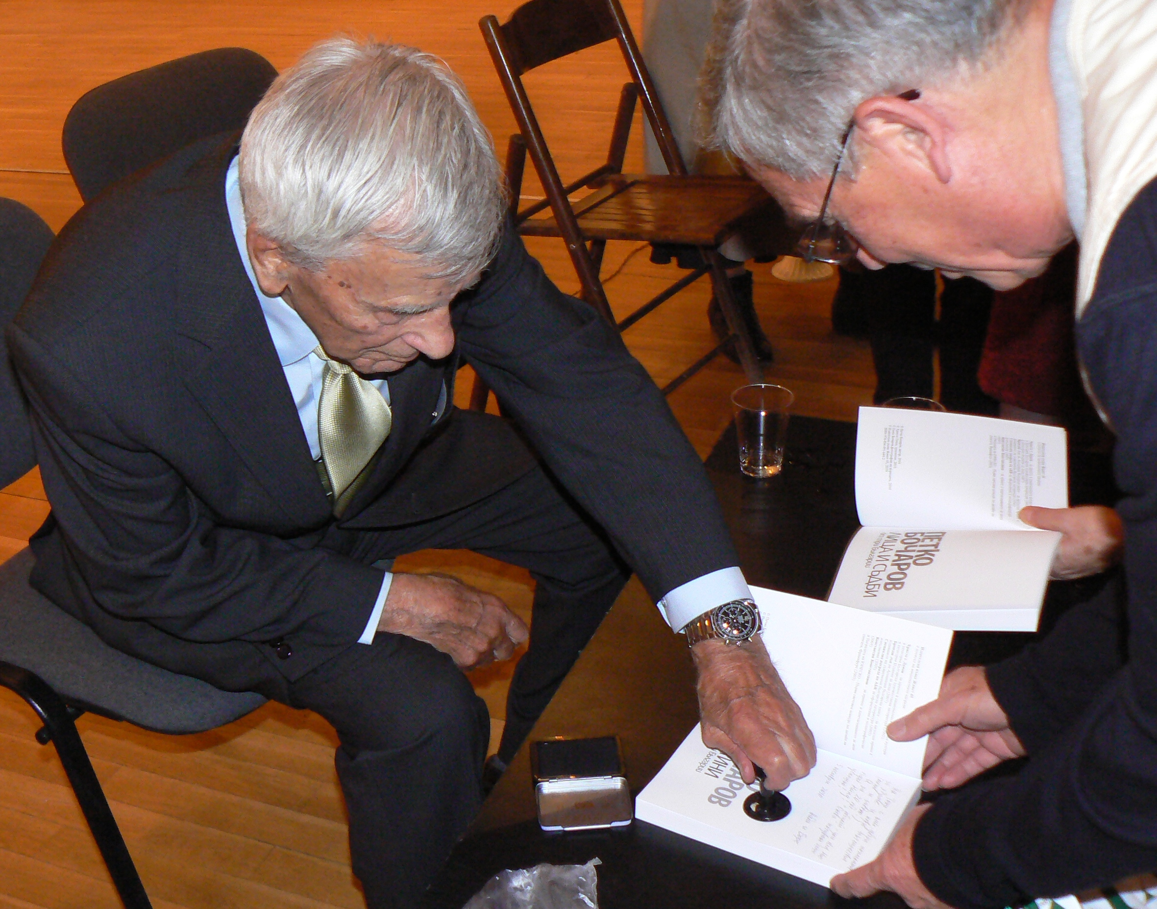 Bulgarian journalist Petko Bocharov, on the literary reading of his book "Faces and fates from three Bulgarias" in the Sofia Town Gallery on November 4, 2010